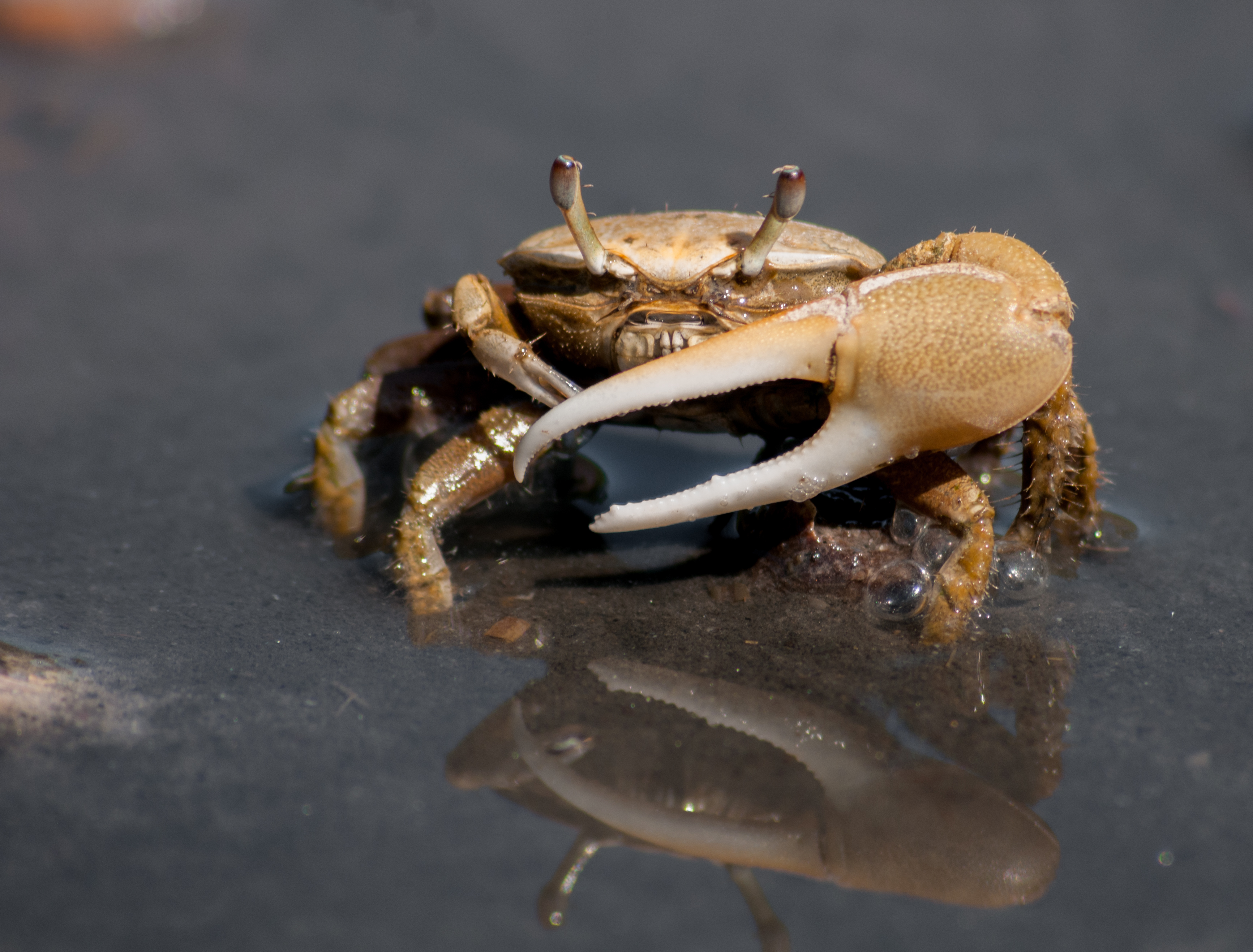 Unknown crab, El Guamache, Margarita Island